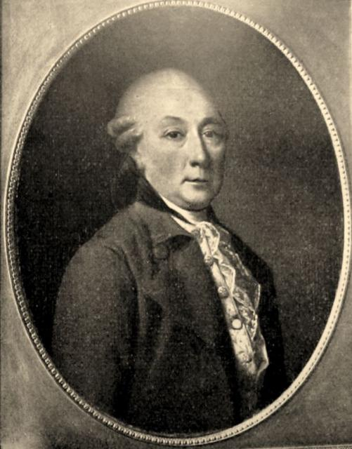 Poul Abraham Lehn (1732-1804), Danish Baron and estate owner. Painting is either 1778 by C.A. Lorentzen or 1781 by Jens Juel.